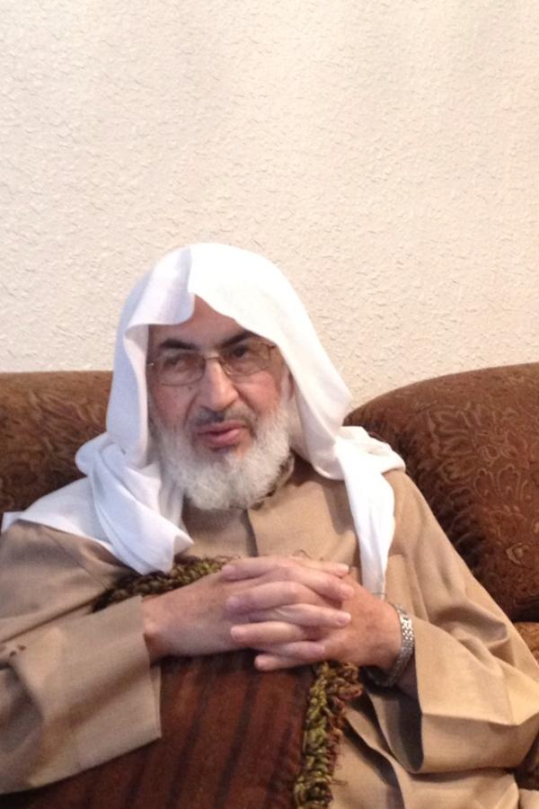 صورة للشيخ العالم عمر الأشقر رحمه الله